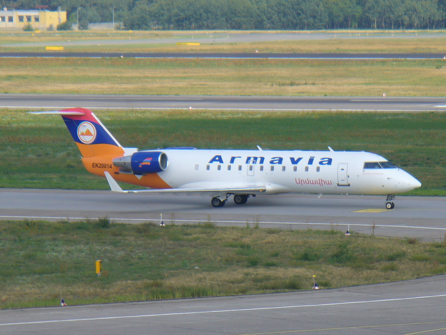 An Armavia Bombardier CRJ200 taxiing at Berlin-Tegel Airport following a flight from Yerevan.